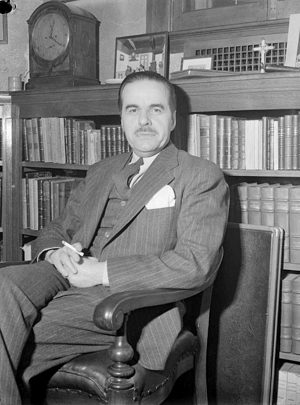 The lawyer Paul Gouin domiciled in Prince Albert Avenue in Westmount. He is sitting in a chair in front of a library..